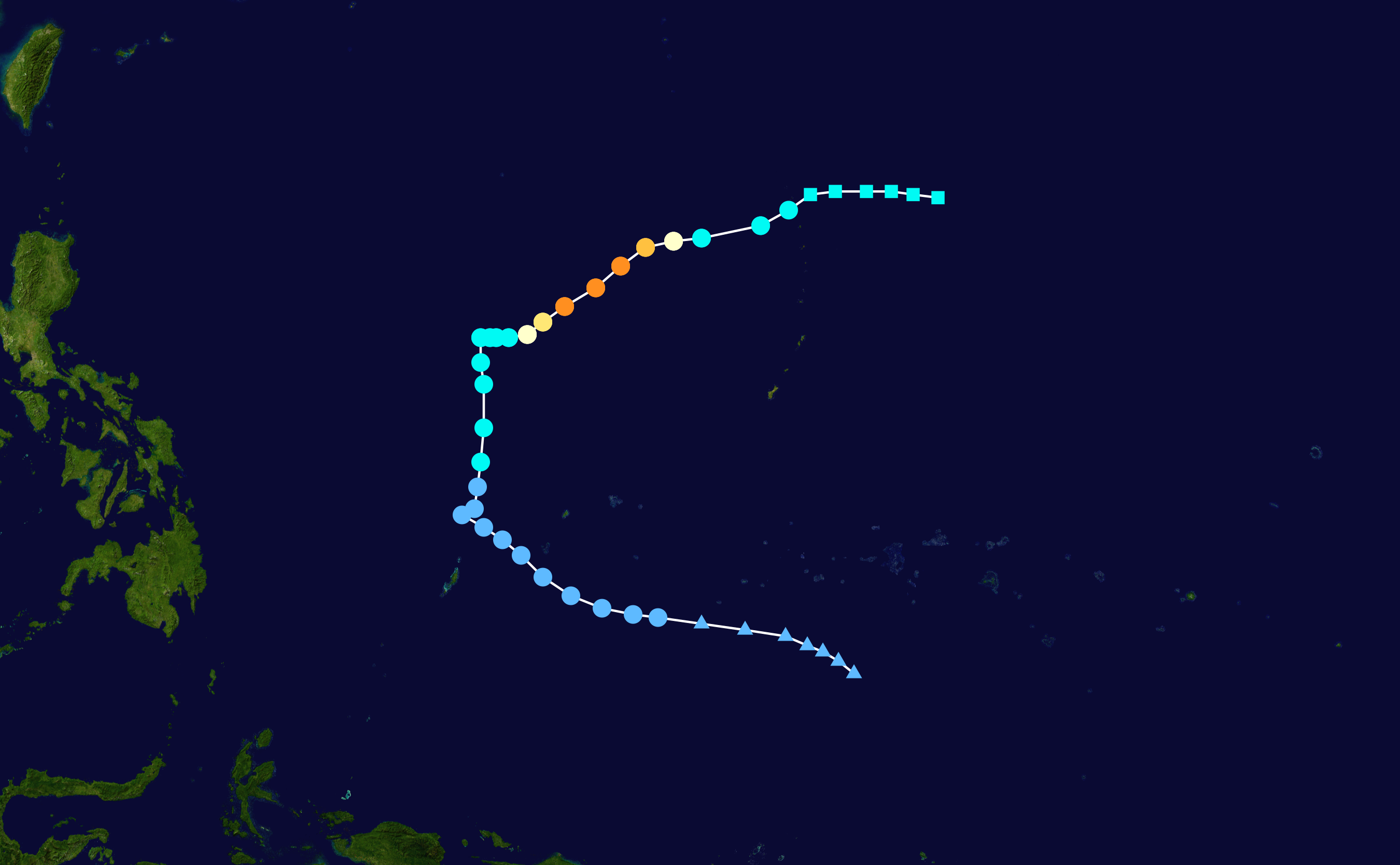 Track map of Typhoon Jelawat of the 2018 Pacific typhoon season. The points show the location of the storm at 6-hour intervals. The colour represents the storm's maximum sustained wind speeds as classified in the Saffir–Simpson scale (see below), and the shape of the data points represent the nature of the storm, according to the legend below. Saffir–Simpson scale Tropical depression≤38 mph≤62 km/h Category 3111–129 mph178–208 km/h Tropical storm39–73 mph63–118 km/h Category 4130–156 mph209–251 km/h Category 174–95 mph119–153 km/h Category 5≥157 mph≥252 km/h Category 296–110 mph154–177 km/h Unknown Storm type Tropical cyclone Subtropical cyclone Extratropical cyclone / Remnant low / Tropical disturbance / Monsoon depression